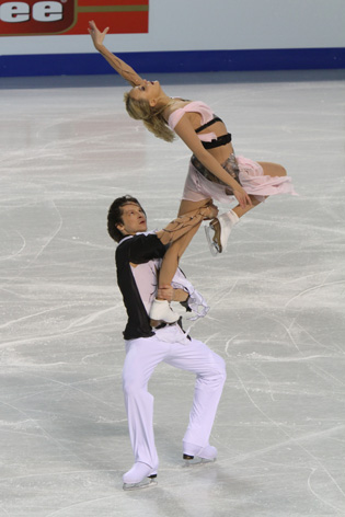 2010 European Figure Skating Championships - Oksana Domnina and Maxim Shabalin